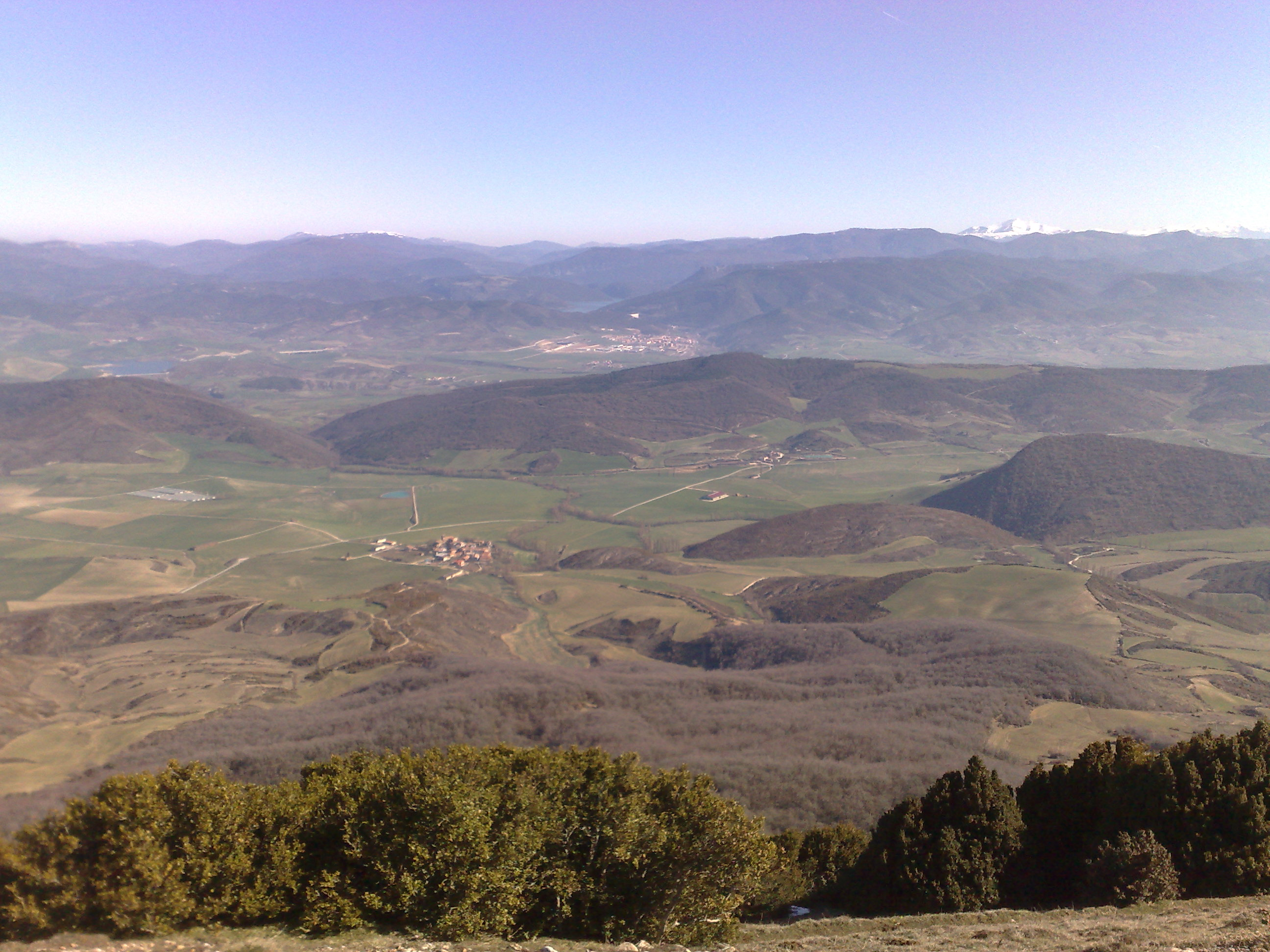 Part of Itzagaondoa valley (Ardanatz, Iriso...) seen from mount Itzaga; farther you can see a bigger town, Agoitz (es Aoiz). Navarre, Basque Country.